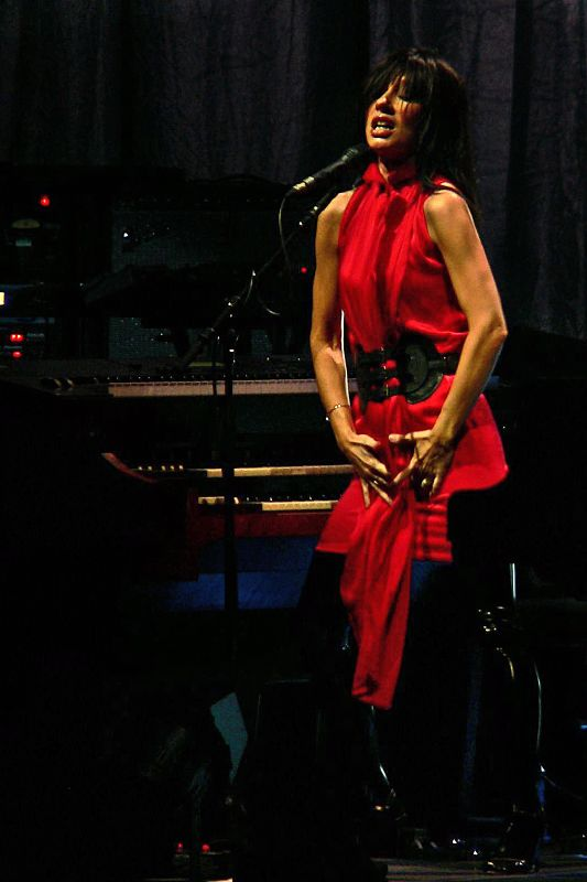 Tori Amos in Concert as Pip during her American Doll Posse tour.